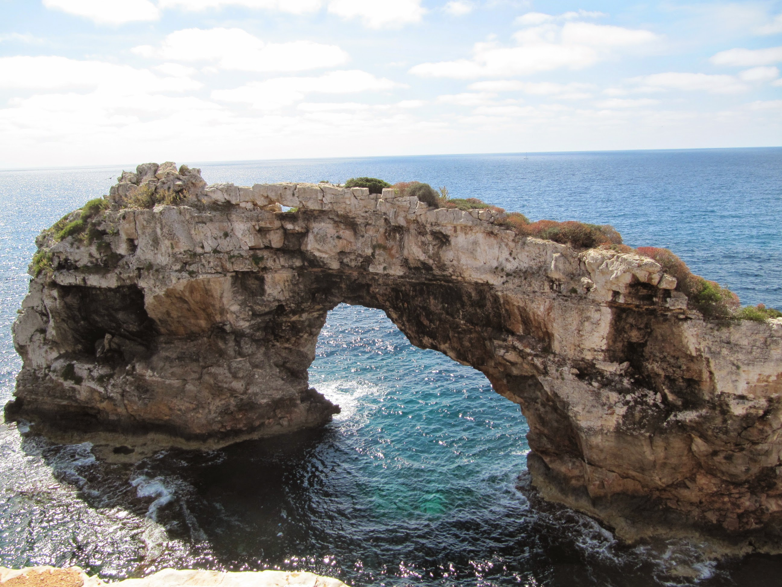 Es Pontàs